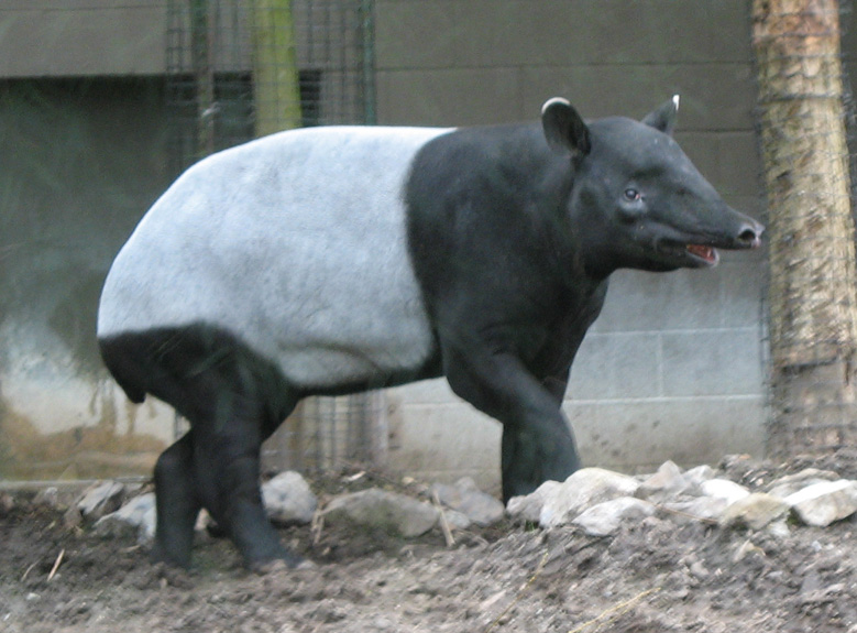 Photo taken by Sasha Kopf of a female Malayan tapir at the Woodland Park Zoo, Seattle, Washington, USA